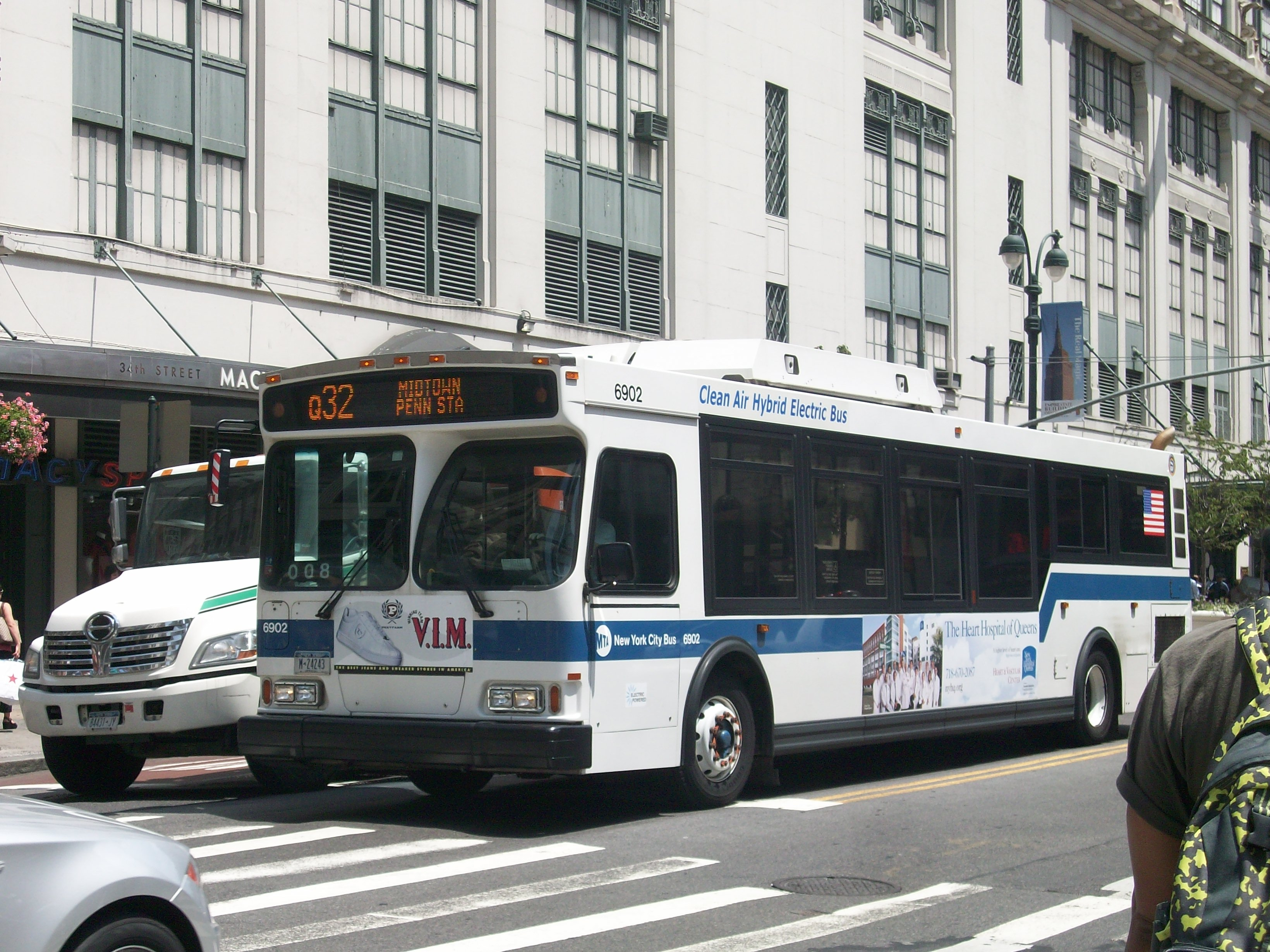 MTA bus in New York